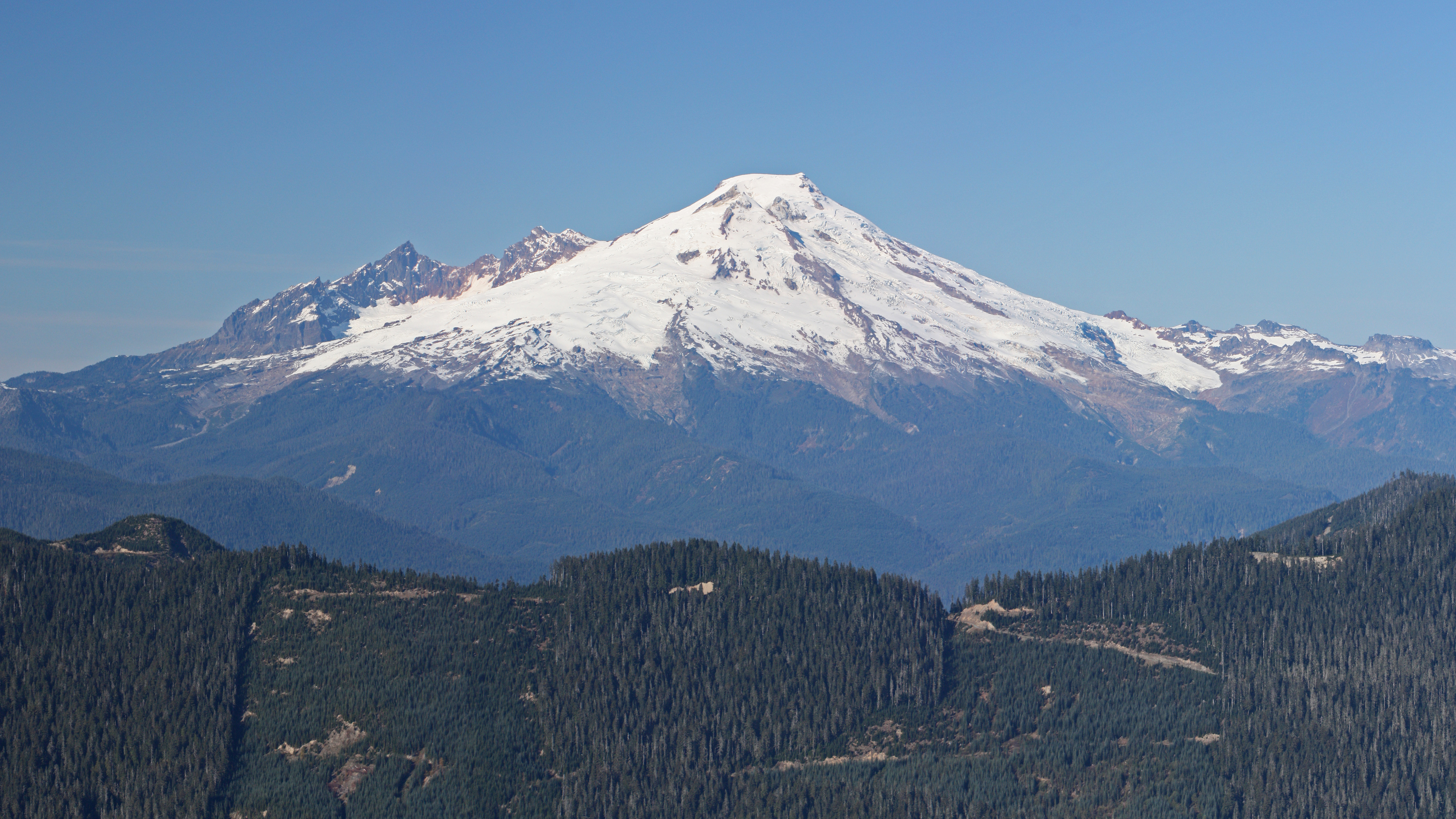 Mount Baker (south face); The Portals (right skyline, the lower east-most portal at far right); Park Cliffs and Park Glacier (right); Boulder Glacier (right center); Talum Glaciers (center); Squak Glacier (left center); Easton Glacier (left); Lincoln Peak (sharp pointed on left skyline); Colfax Peak (double summits, left center) Stitched panorama: Please see "Other versions" for source images. This image was created with Hugin. Viewpoint location: Sauk Mountain Trail #613, Mount Baker-Snoqualmie National Forest Viewpoint elevation: 1680 meter (5510 ft) View direction: 331° Location source: Garmin GPSmap 60CSx Location Datum: WGS84